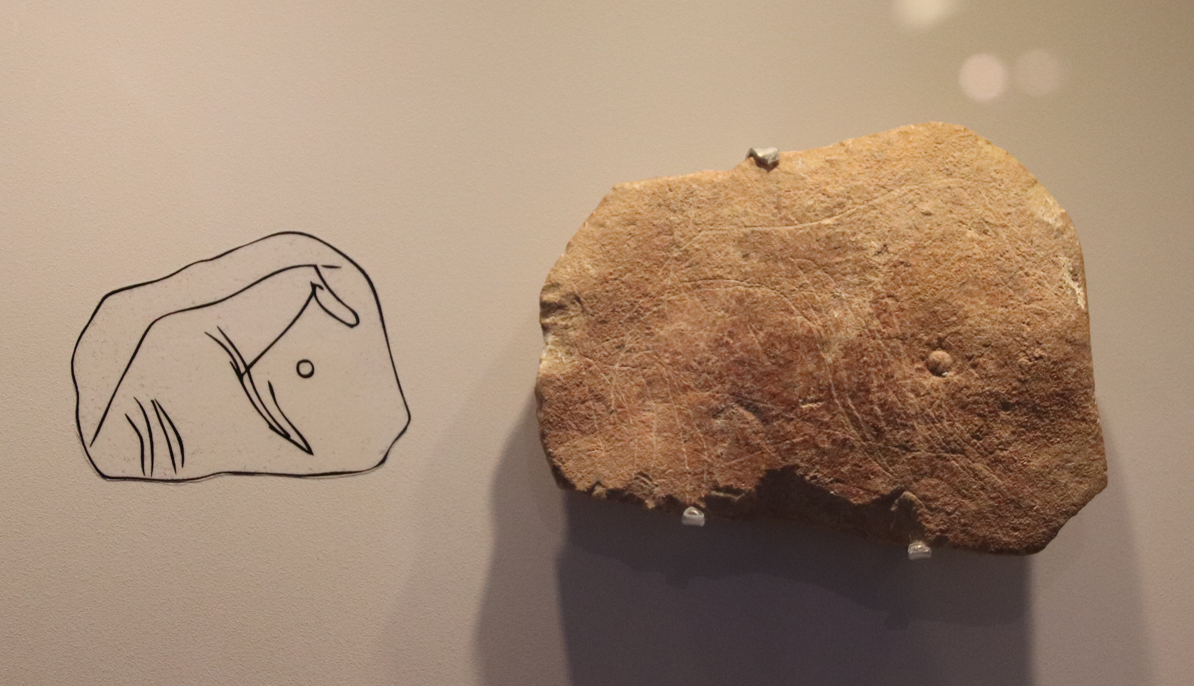 Stone Age Animal Carving, Hayonim Cave, 28000 BP Israel Museum, Jerusalem, Israel. Complete indexed photo collection at .